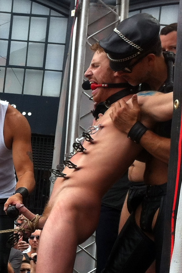 Kink Demo at Folsom Street Fair 2012.